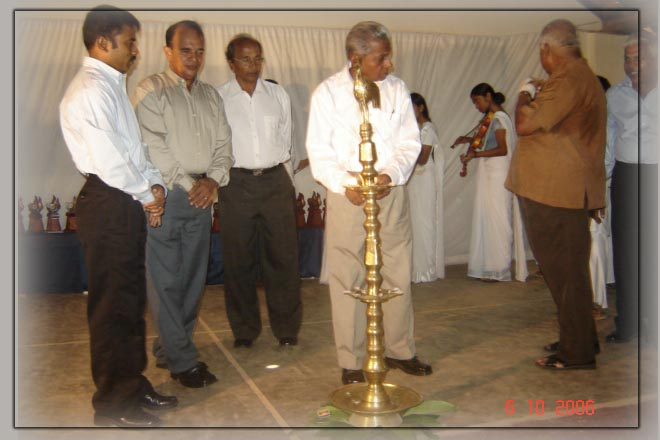 Lighting Oile Lam